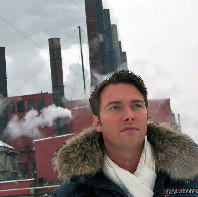 Photo of Martyn in Russia